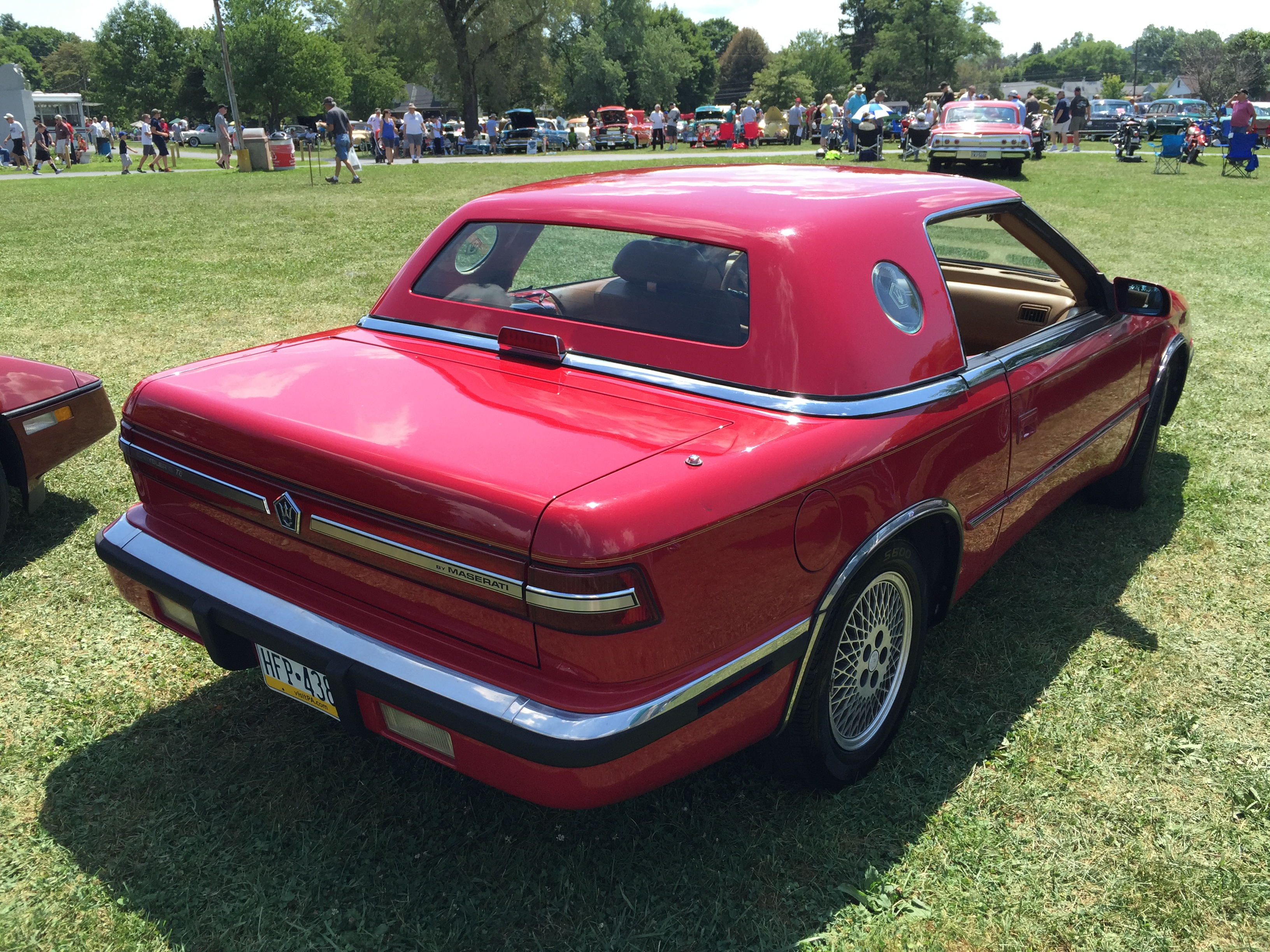 1990 Chrysler TC by Maserati, a two-seat GT car. This is a modified second generation Chrysler K platform jointly developed by Chrysler and Maserati known as "Q" body. It is a two-door convertible with its extra removable hardtop (with porthole window) in place. Picture taken at the 52nd Annual "Das Awkscht Fescht" antique car show in Macungie, Pennsylvania.